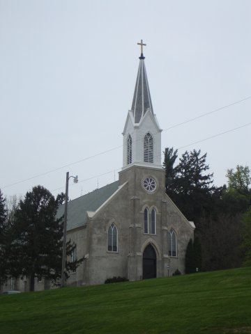 Saint Donatus Catholic Church, Saint Donatus, Iowa.